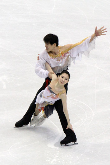 Zhang Dan and Zhang Hao at the 2010 Winter Olympics (SP).